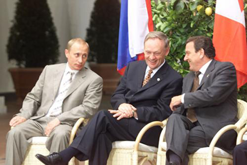 GENOA. President Putin with Canada\'s Prime Minister Jean Chr?tien and German Chancellor Gerhard Schroeder (right) during the presentation ceremony for the Global Fund to Fight AIDS, Tuberculosis and Malaria.